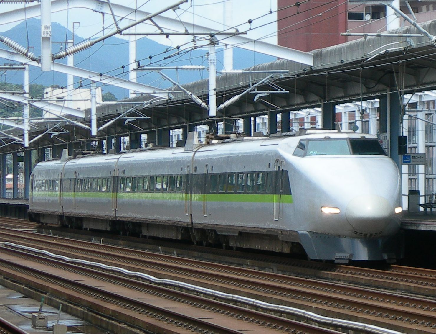 JR West Shinkansen 100 series P11 Unit in 4 cars at Shin-Shimonoseki Station